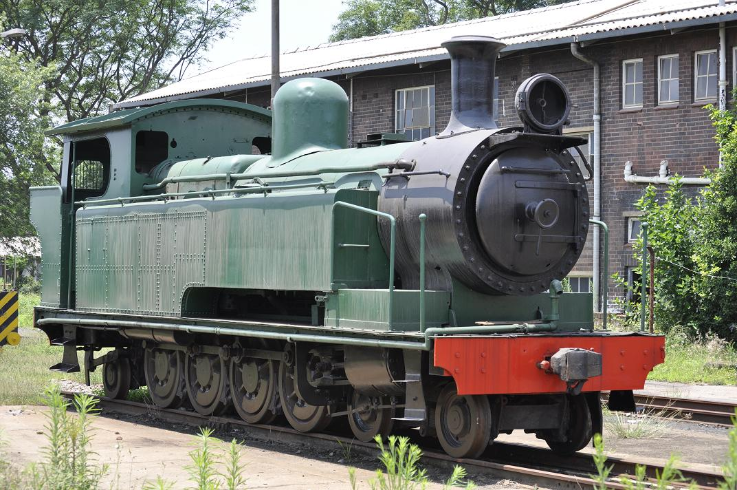 Dubs No. 196 at Masons Mill - Pietermaritzburg